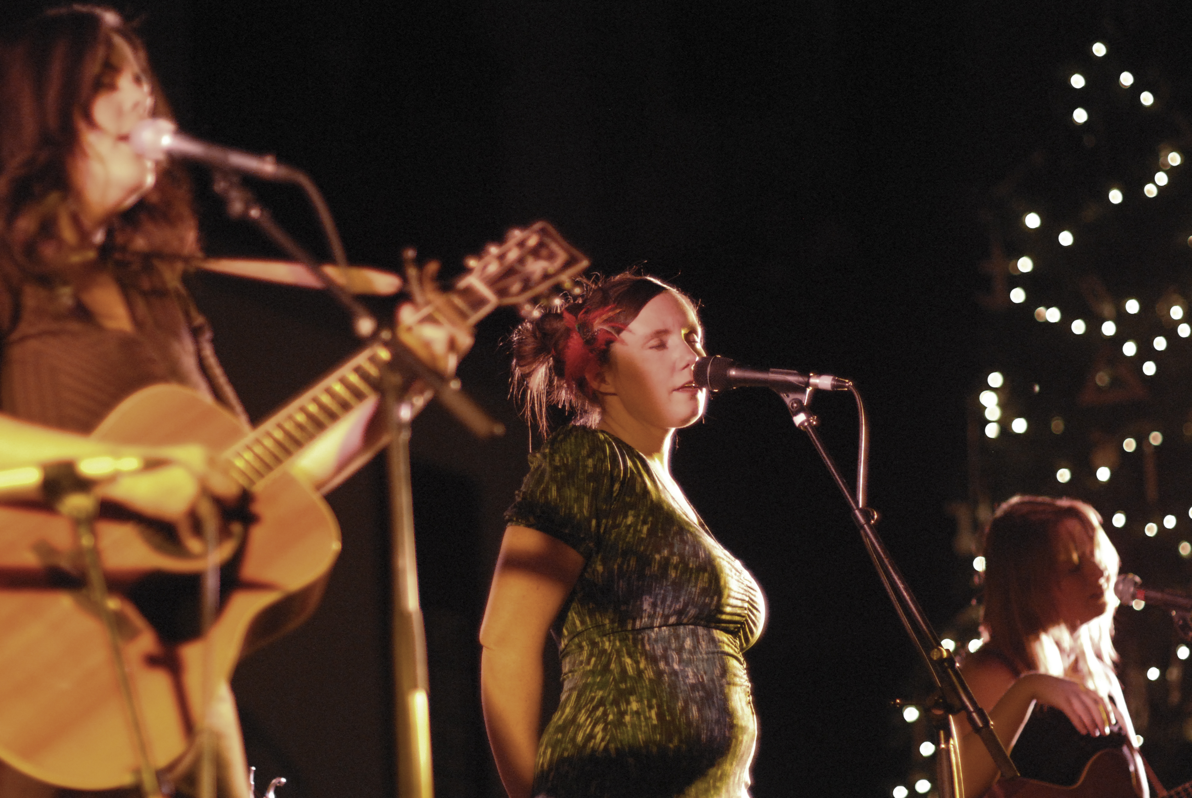 The Be Good Tanyas, of Vancouver British Columbia, performing in Calgary Alberta.